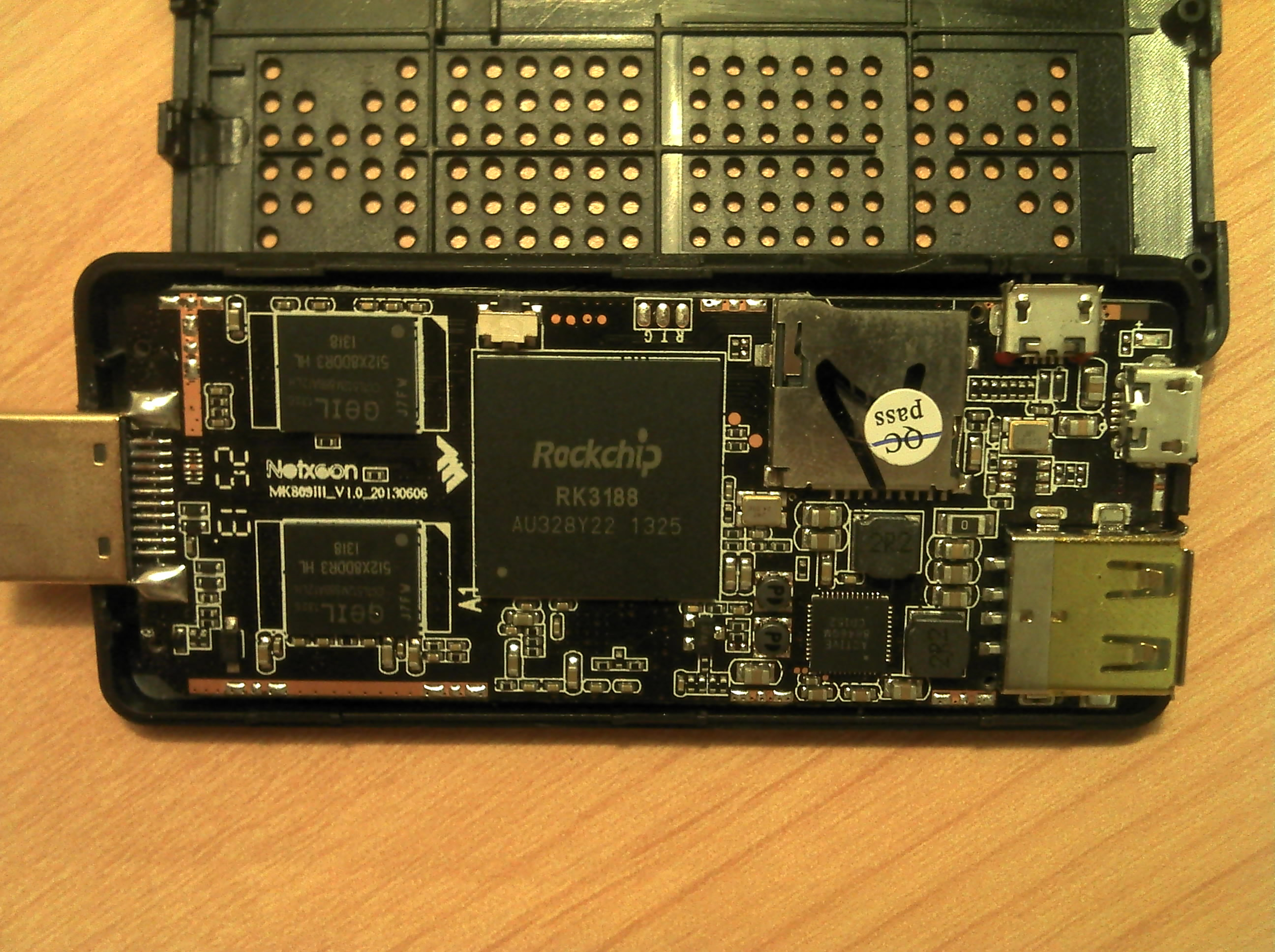 Originally produced as an Android Mini-PC TV-Stick, there is a range of Operating Systems to run on RK3188 ARM SoC devices such as this one. Despite the Android logo on the outside it also runs other Linux distributions. The specific model name found on the board inside is MK809III V1.0. This device was built in the 25th week of 2013 and the PCB revision dates 2013-06-06. Its characteristics are: Rockchip RK3188 ARMv7 SoC GEIL 2GB DDR3 RAM memory SK hynix 8GB NAND memory Active ACT8846 Voltage Regulator Broadcom AP6210 WIFI/BT Combo ITE IT66121 HDMI chip HAOYU HYM8563 RTC chip Blue LED (power on, customizable) 1 recovery button (paper clip hole on the side) 1 µSDHC card reader 1 USB2.0 OTG micro size connector (for peripheral or nand flash, see below) 1 USB2.0 micro size connector (for 5V 2A power connect in normal usage) 1 USB2.0 HOST full size connector (for peripheral) to flash the device: unplug every port of the device use a paper clip to push the recovery button and hold connect OTG port ONLY to a PC, wait a couple of seconds release recovery button, flash using your favorite software The device is very similar to Rikomagic MK802 IV or Radxa Rock devices, up to the extent that firmwares are interchangable. They are all built around the same RK3188 ARMv7 SoC. The Kernel can be customized by the end user, as leaked Rockchip Kernel sources versioned 3.0.36 may be found on Github. Some work is in progress to integrate support into mainline kernel tree. For more info see [1]